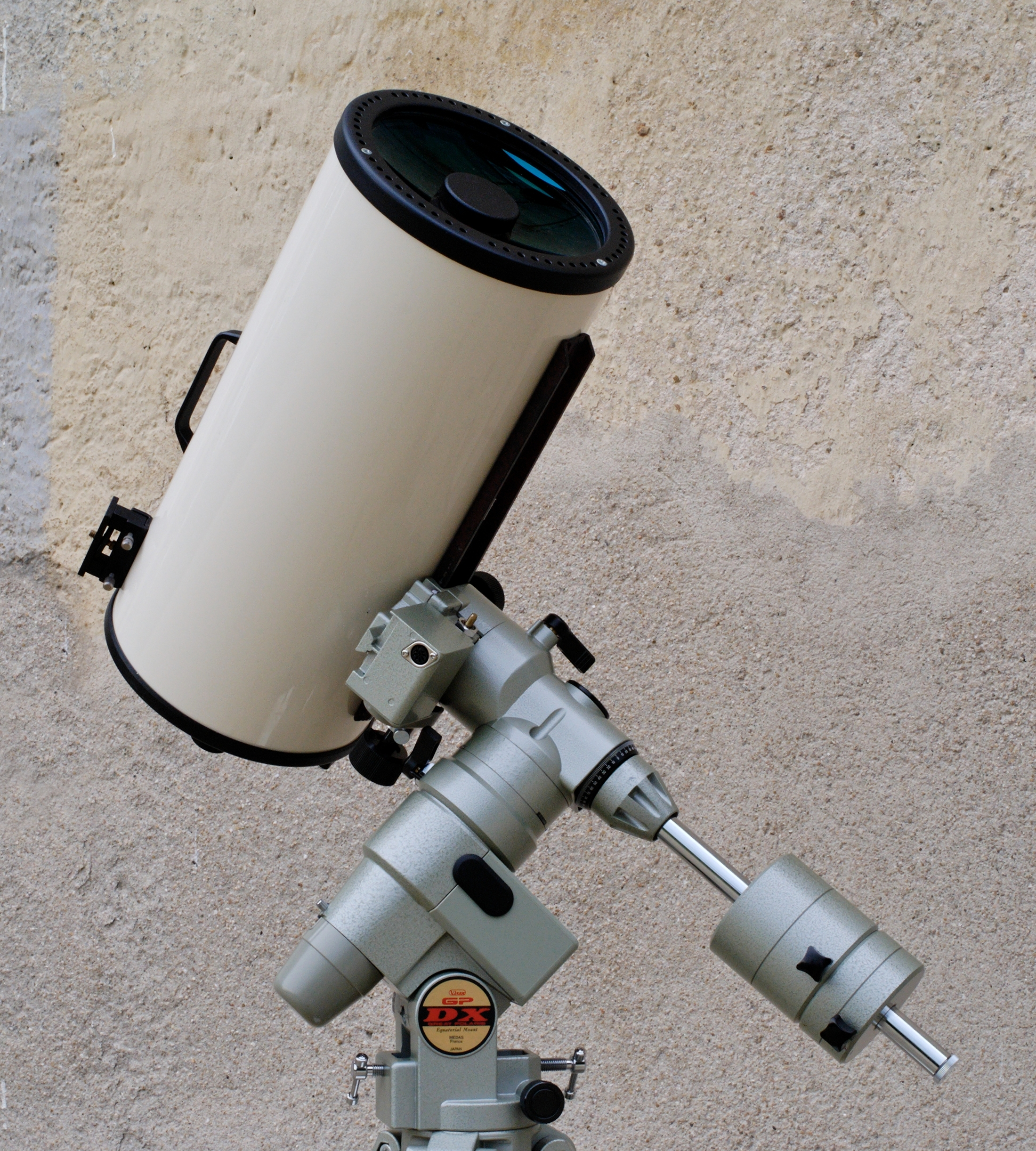 A Maksutov-Cassegrain (Rumak) Intes M703 (7.1"/180mm, F/D 10) tube mounted on a Vixen GP-DX German equatorial mount.